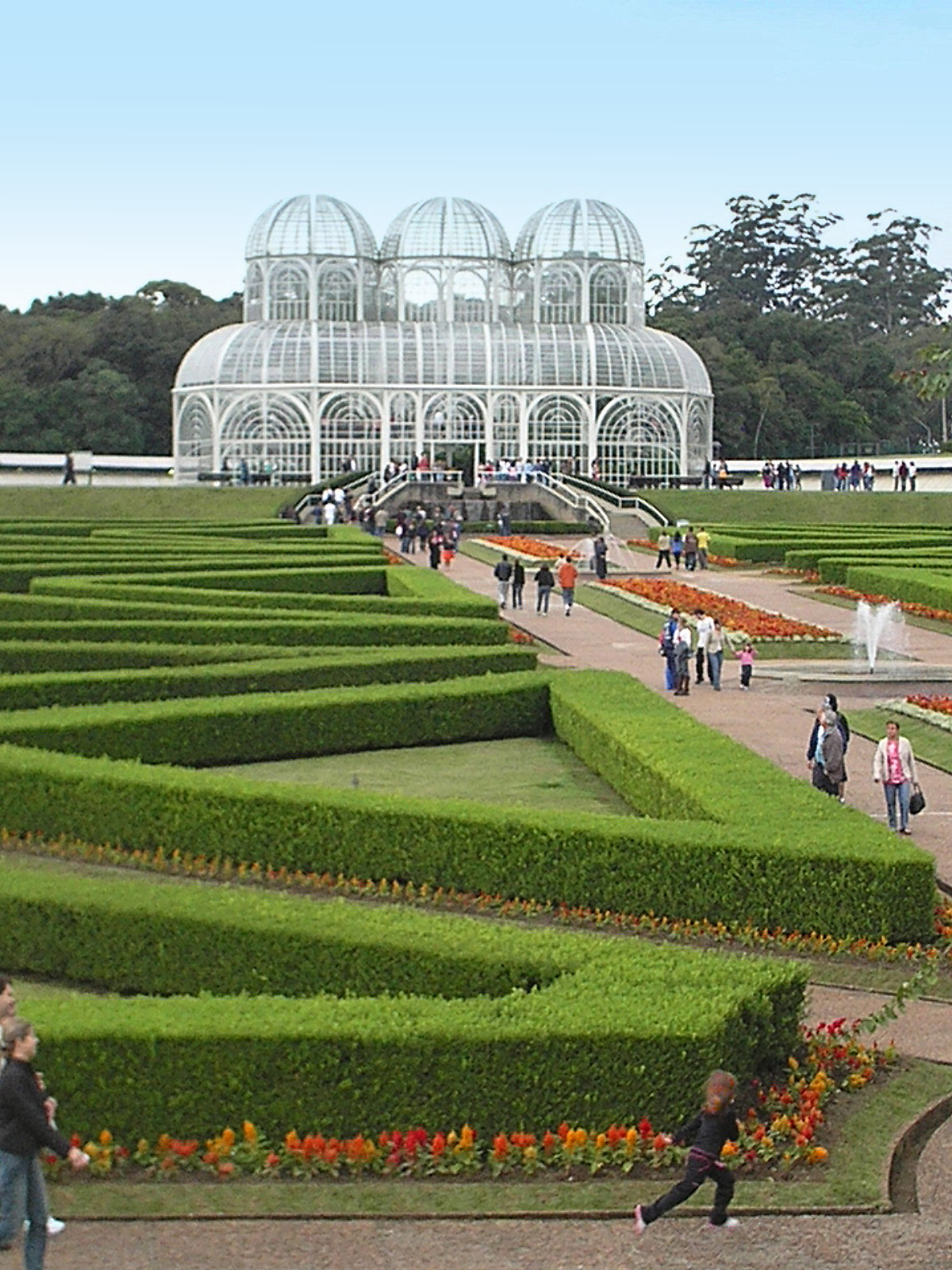 Botanical Garden of Curitiba, Paraná, Brazil